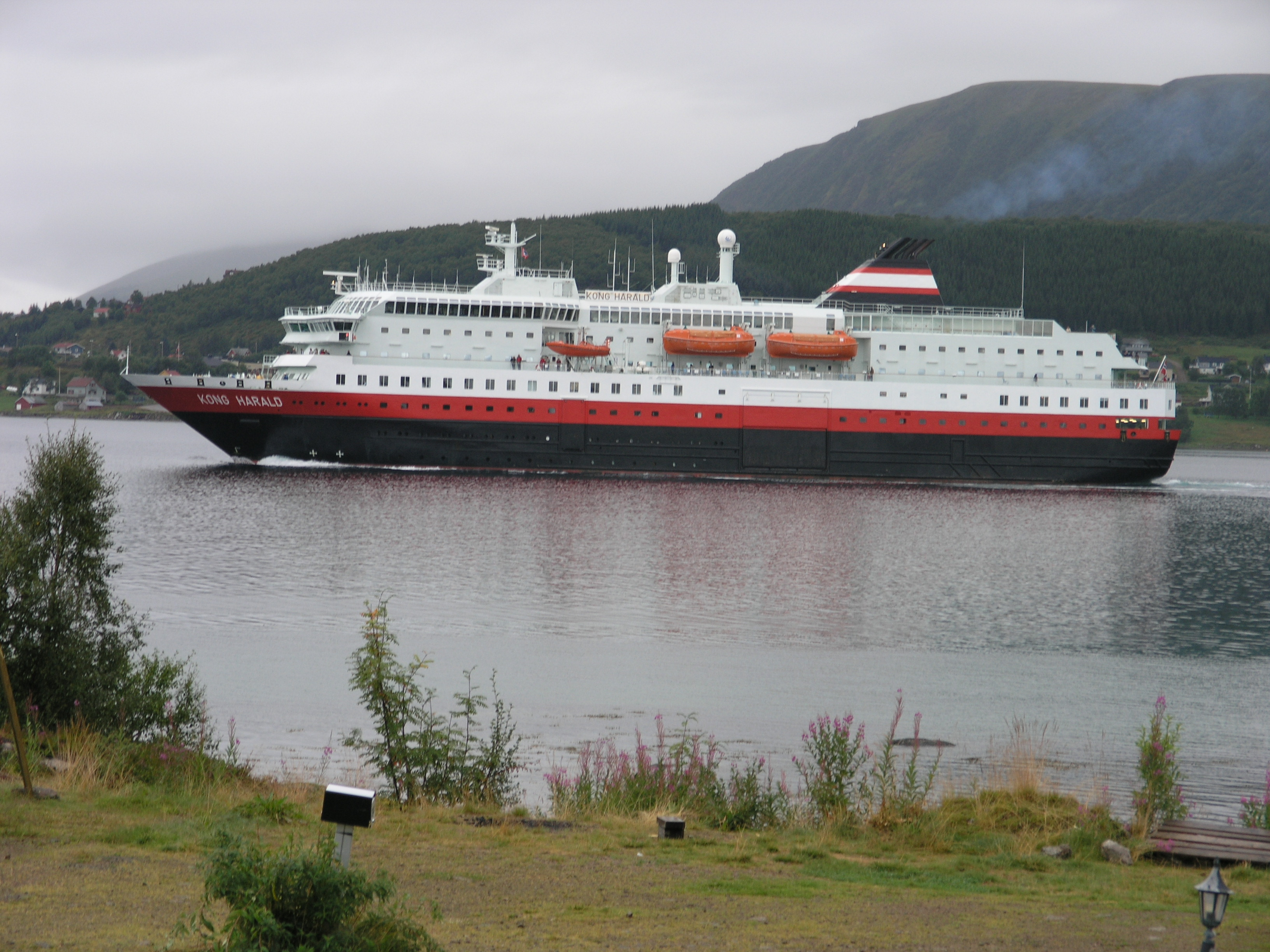 Ferry Kong Harald